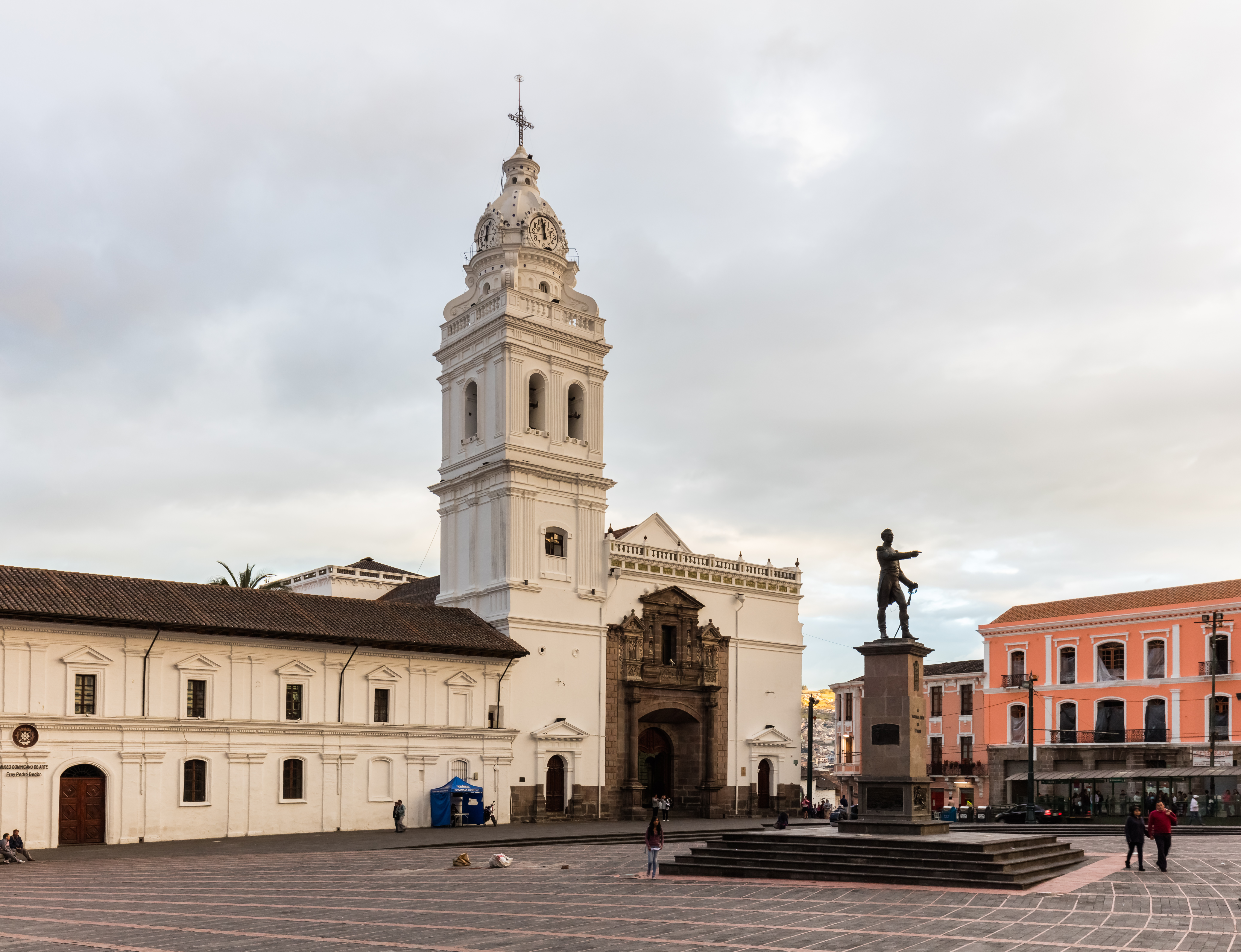 Church of Santo Domingo, Quito, Ecuador